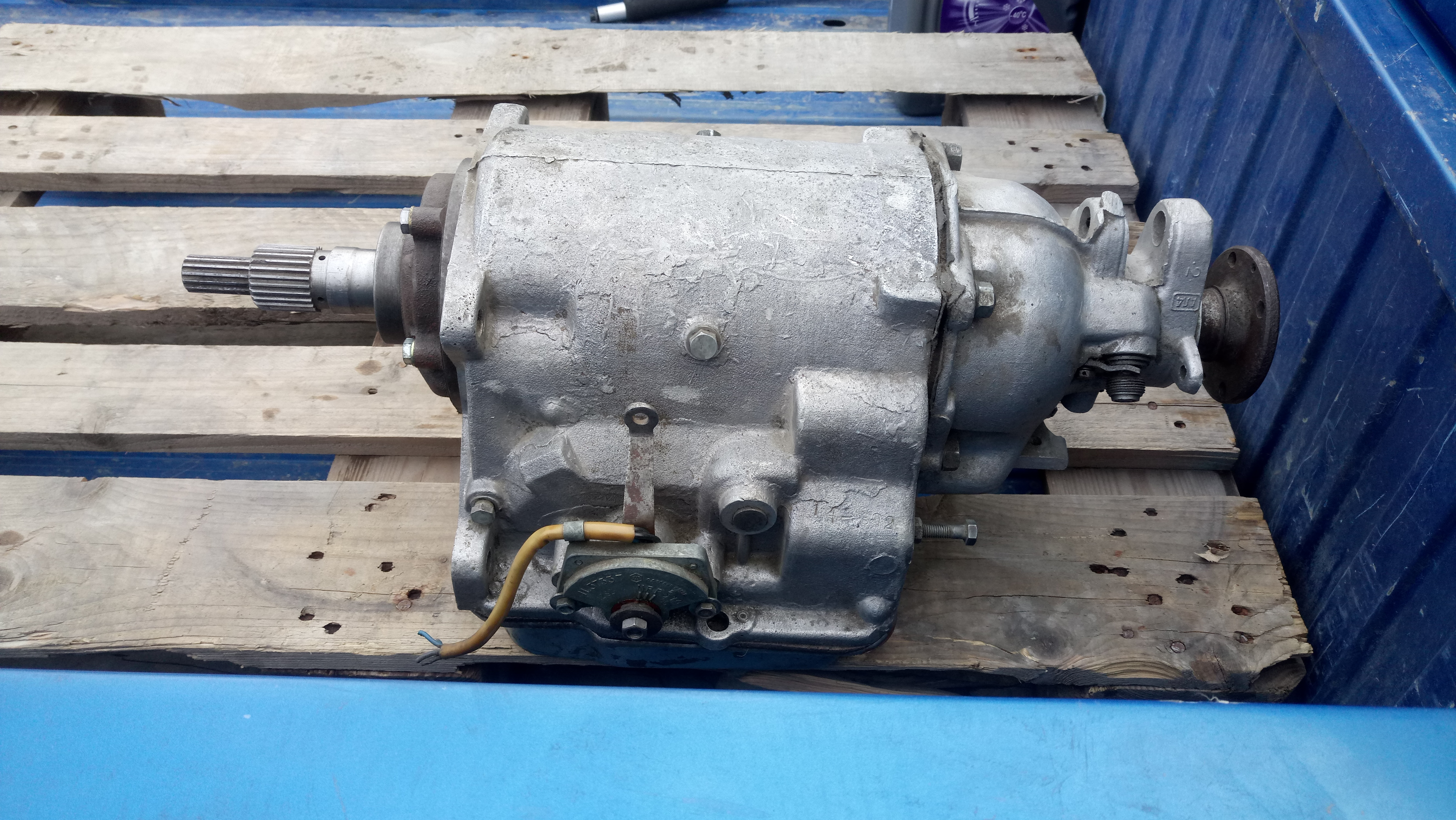 Automatic transmission of GAZ-14 Chayka car.